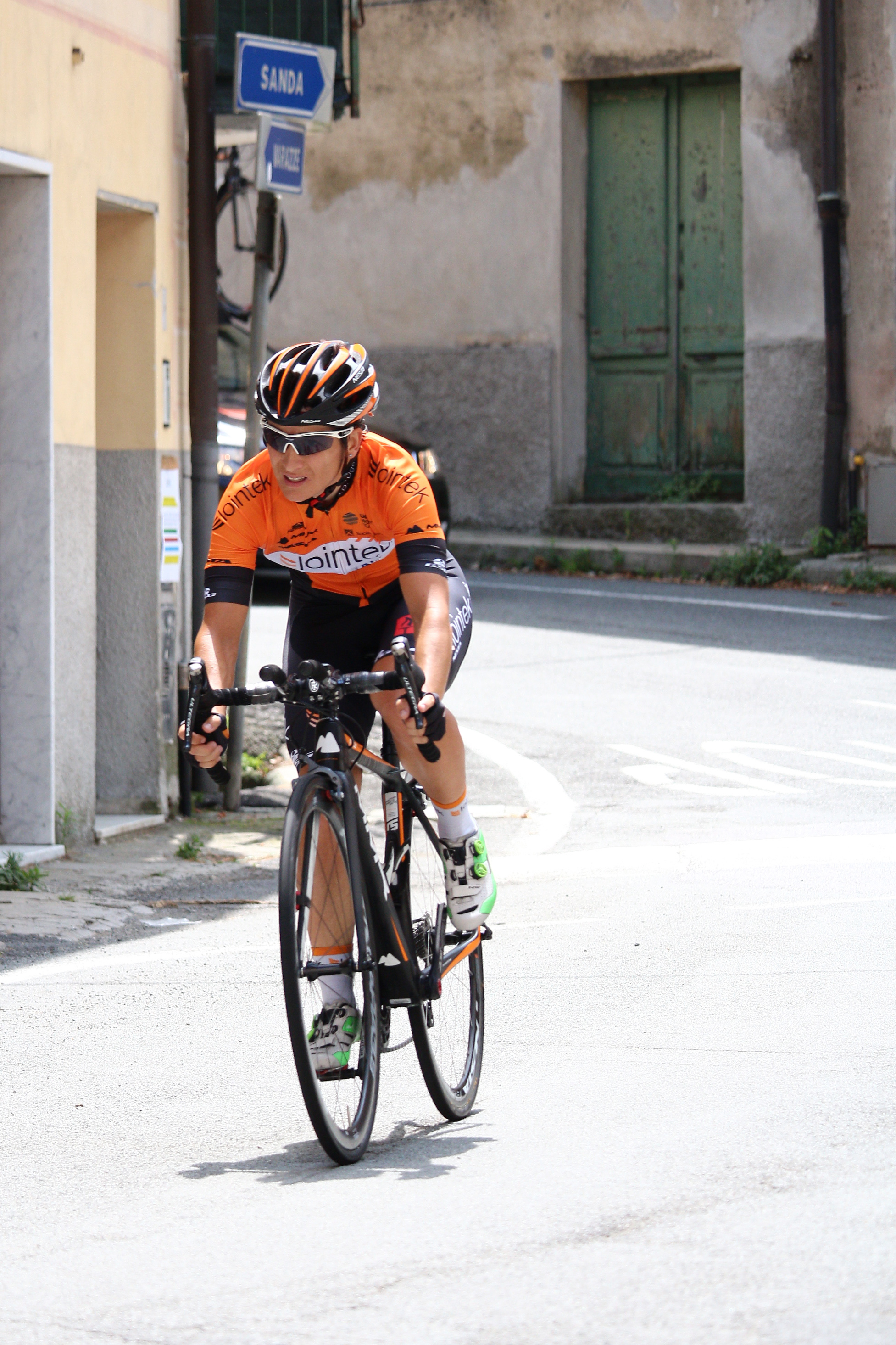 Anna Ramirez Bauxel during the 7th stage of Giro Rosa 2016 in Stella San Martino